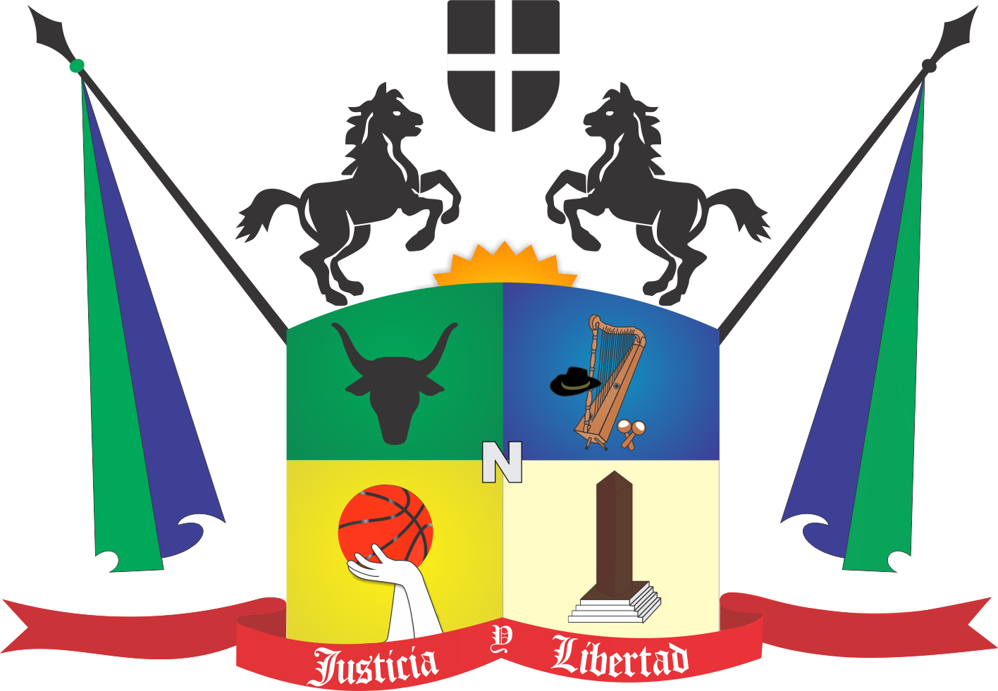 1. In the green field a bull's head facing forward . Two . In the blue field a harp cedar , some interlocking mats and a hat in front of the harp. Three . In the yellow field two hands holding the ball . April . In the field of light-colored sharp head pedestal . A sun rising tips site color. Two horses in black leaning with his hands raised . A cross of embroidered silver black color. the right and left two flags of black and blue side. MEANING : The shield is divided into four sections that show : 1. The first section reflects DARK GREEN colored bull head showing the richness of our fields. Two . The second section of da BLUE in our vast and outstanding culture of our ancestors lies and customs that persist today. Three . The third section on YELLOW clearly shows that daily sport practice such as coleus , among other sports. April . The fourth section of CLARO color reminds us of the great history of our people such as Simon Bolivar step with the Creoles who got independence in the Boyacá Bridge , also Dr. Salvador Camacho Roldán effort and work that leaves us good teaching. In the upper part : A rising sun with seven pointed them to highlight the name of the municipality . Two horses rampant black color that give great impetus and sample work of burrowing . Above them a silver cross bordered in black shows and give meaning to our religion . At the bottom : A red Blazon praying JUSTICE and FREEDOM which highlights the national emblem that reads "Liberty and Order " . Both left and right , two poles pointing towards the celestial space holding a flag of green and blue. Blue shows our great water wealth watering the fields green color means its forest wealth and diversity of species that live with them .